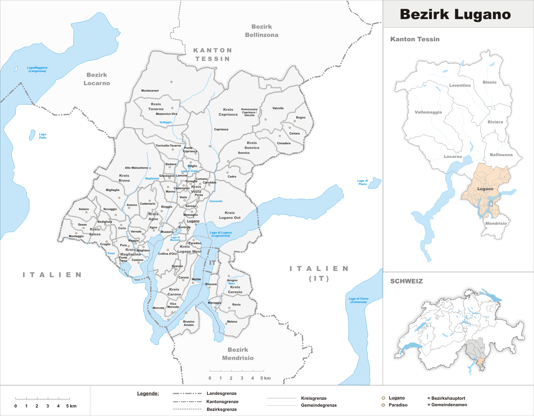 Municipalities in the district of Lugano